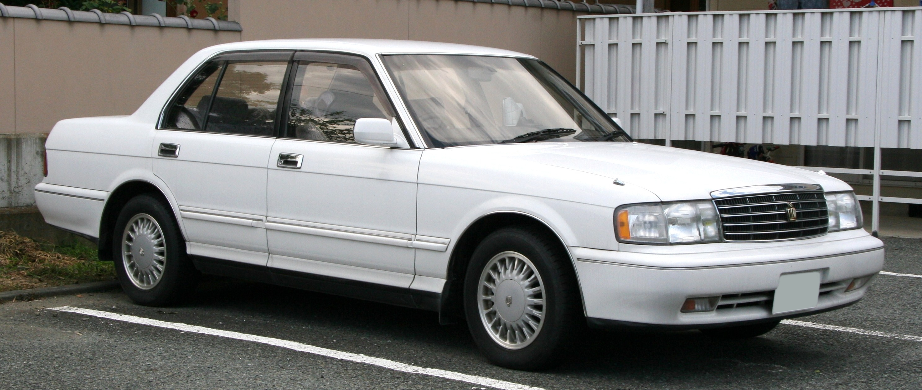 Toyota Crown